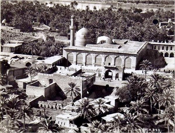 An outer view of Abu Hanifa Mosque in Adhamiyah, Baghdad in 1919.